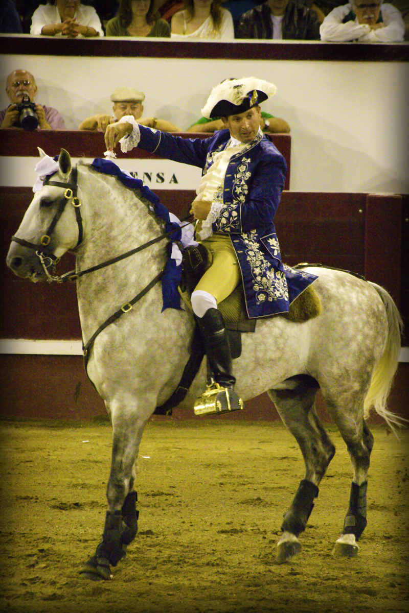 António Telles, professional horseman, challenges a bull during an arena bullfight here July 21. Arena and street bullfights are among the events planned for Praia Fest 2007, which kicks off Aug. 3.